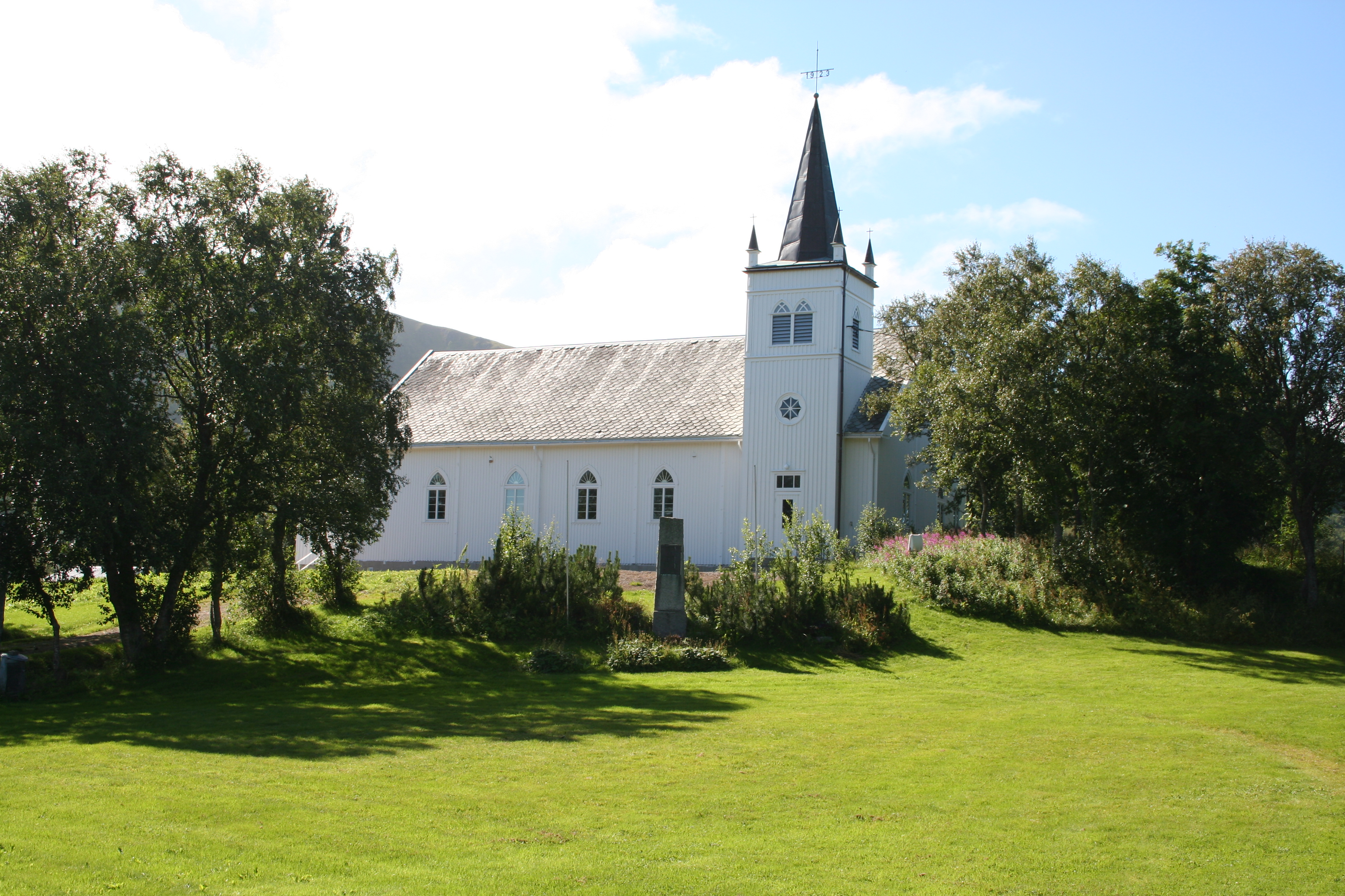 Alsvåg church, Norway. This picture was taken by me on 4 August 2006.